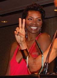 Vanessa Williams, 2011